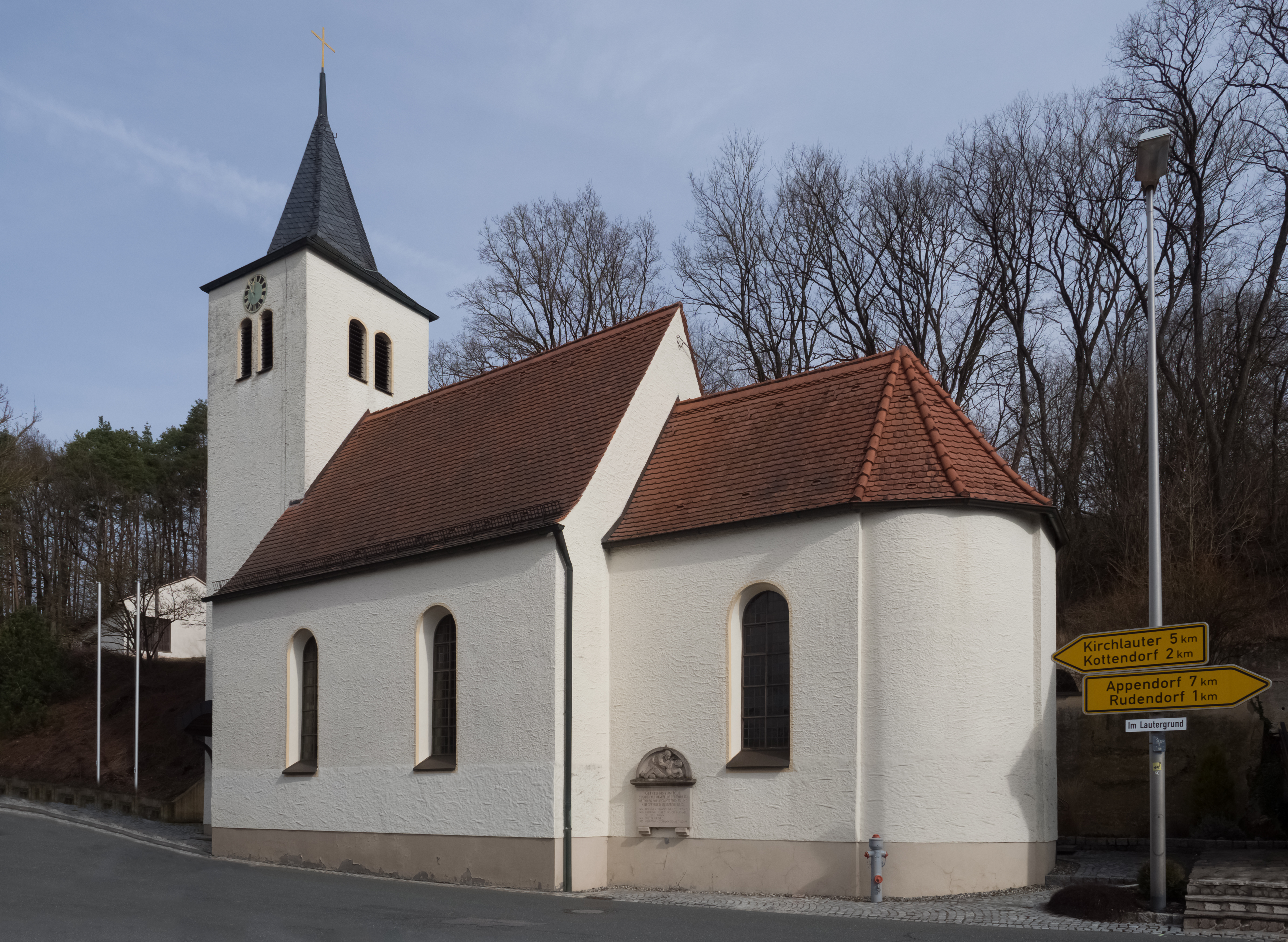 Catholic parish church of St. Aegidius in Lußberg in the district of Hassberge